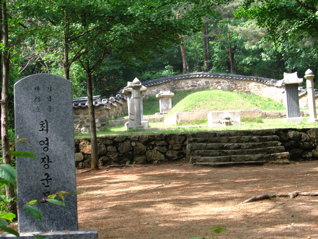 The tomb of General Choe Yeong.